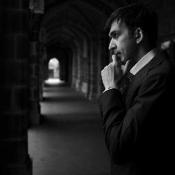 manpj punjabi the owner of MD CORP INDONESIA.